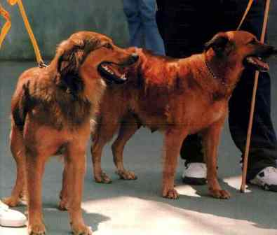 eat gorbeiakoa